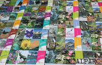 ALPARC postcards